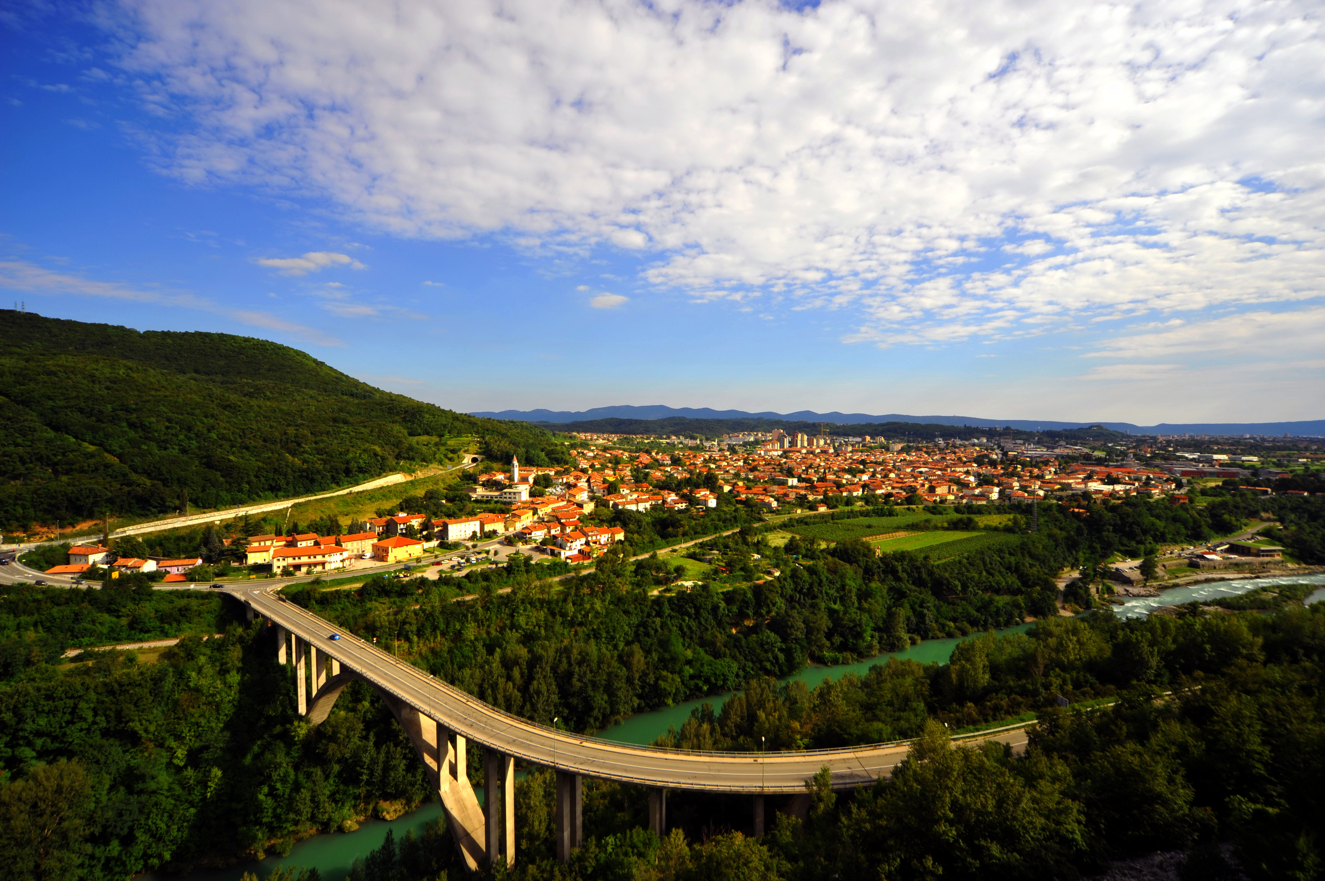 Road bridge across the Soča River at Solkan, in the background Nova Gorica, Slovenia